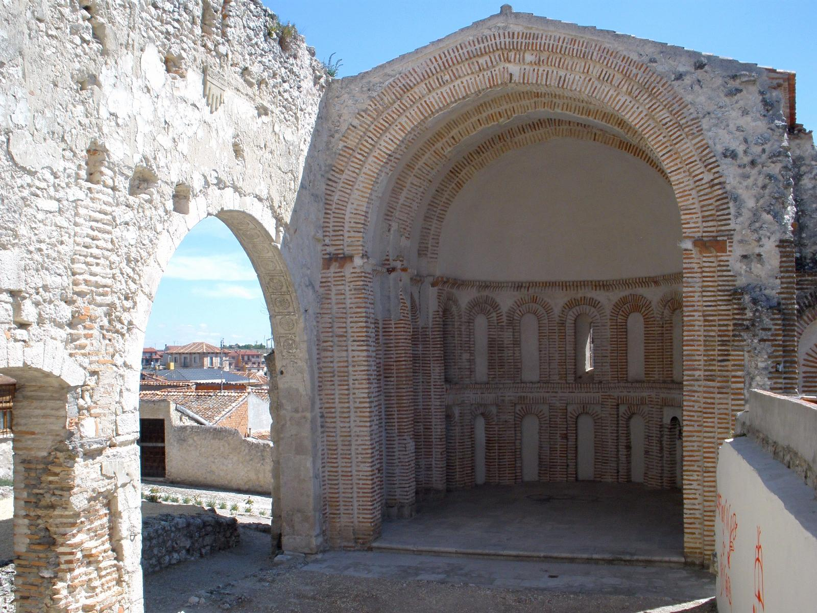 Ábide mudéjar-románico de la Iglesia de Santiago, en Cuéllar (Segovia, Castilla y León, España)